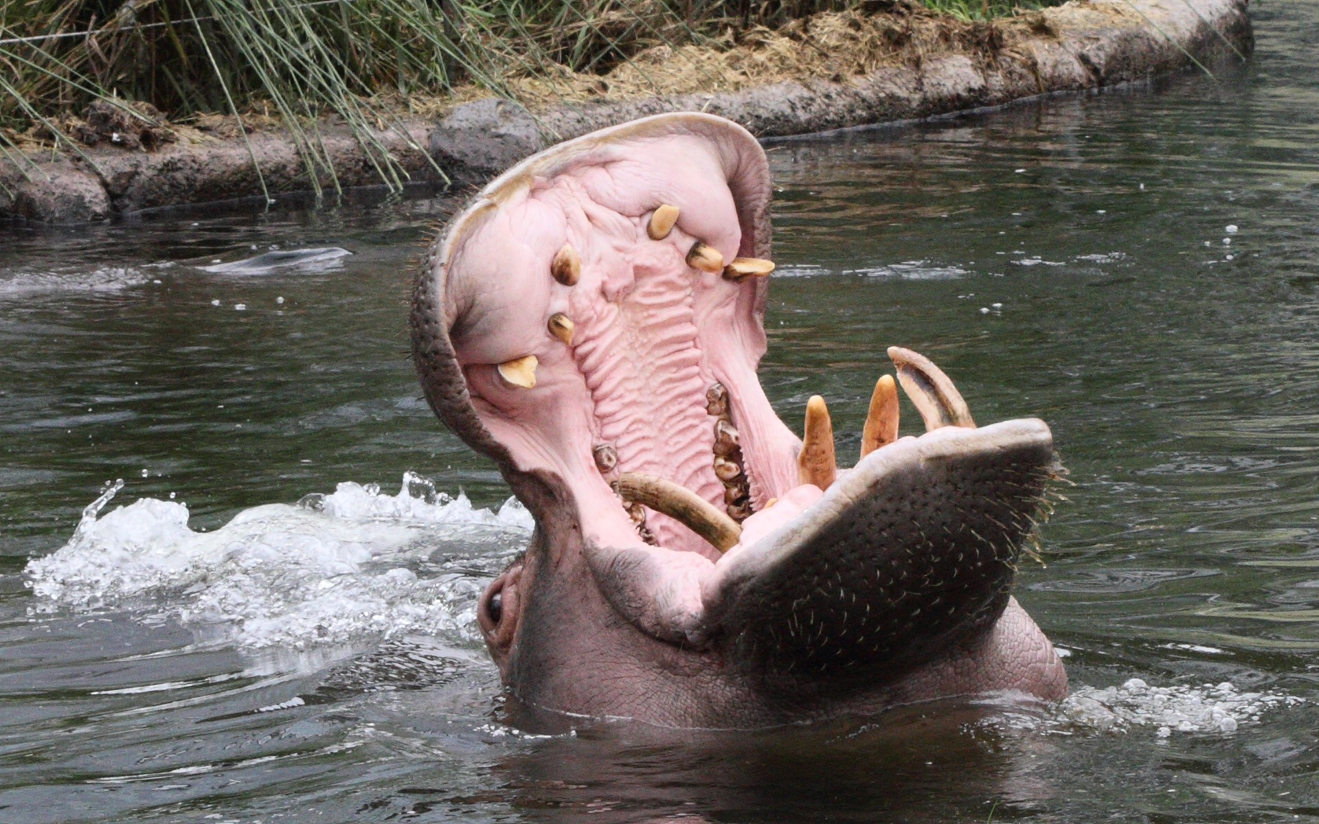 A Hippopotamus (Hippopotamus amphibius) yawning. Pictured in the Afrika exhibition at Copenhagen Zoo, Copenhagen, Denmark